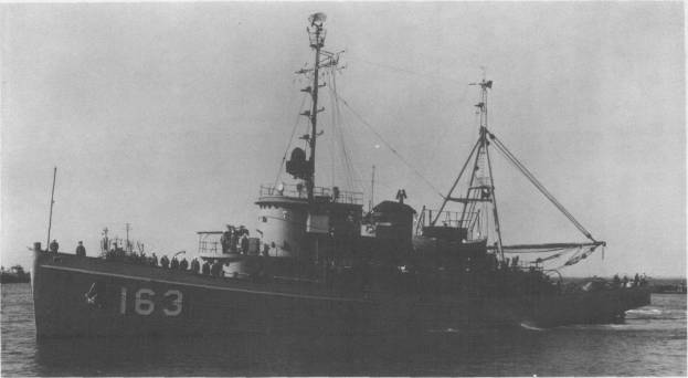 The fleet tug USS Utina (ATF-163) underway for sea trials